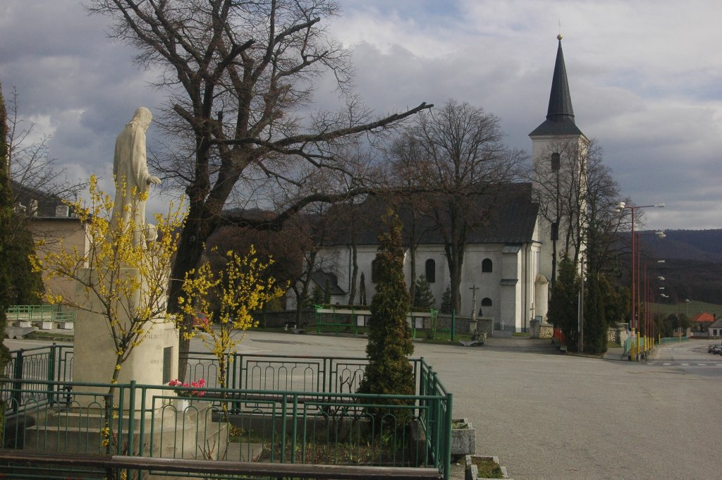 Prievaly, St. Michael catholic church (1714)